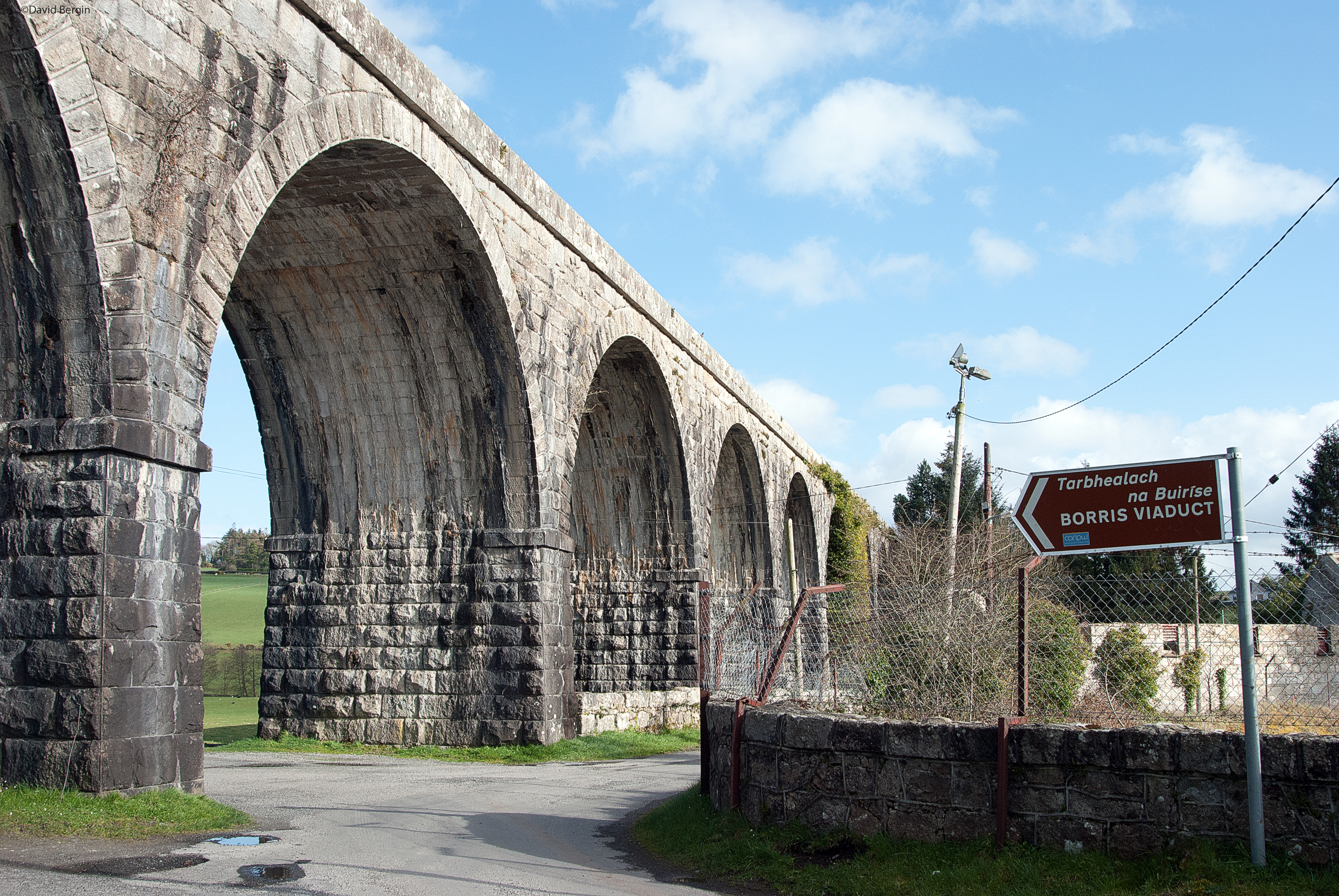 Sixteen-arch limestone built former railway viaduct, c. 1860. Now closed. Designed by William le Fanu.